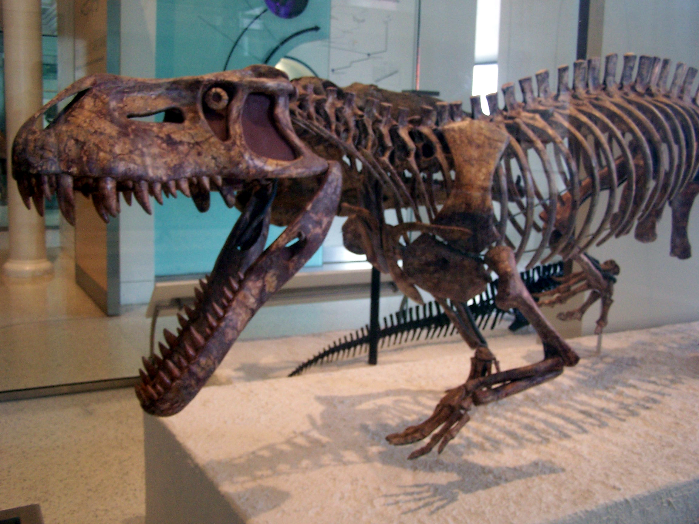 Prestosuchus, Natural History Museum.